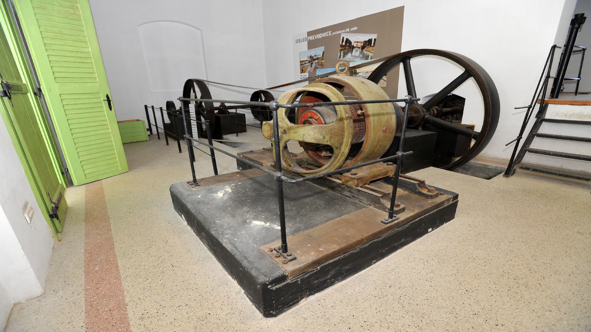 "Prevodnica Šlajz" in Bečej- mechanism